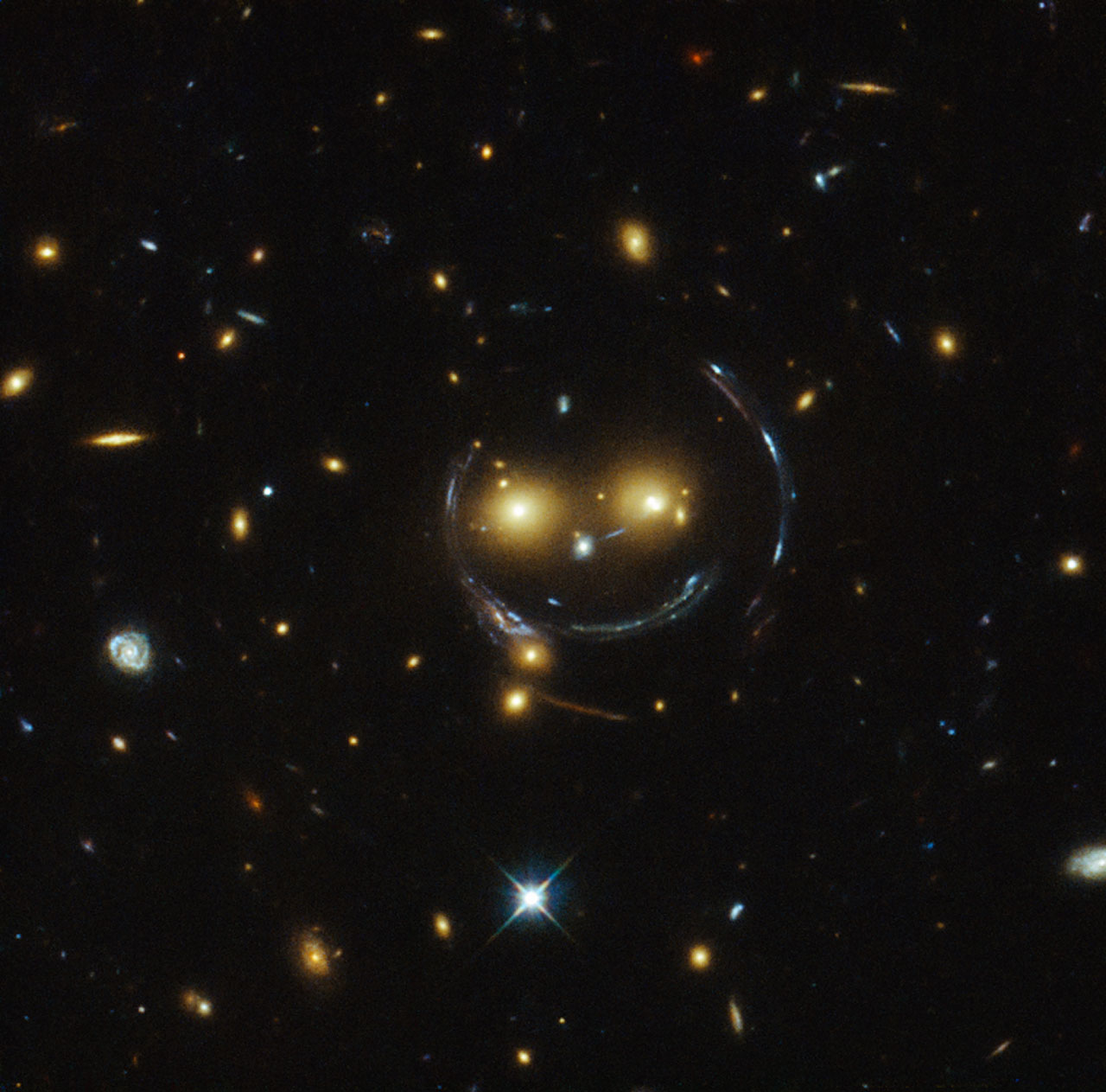 In the centre of this image, taken with the NASA/ESA Hubble Space Telescope, is the galaxy cluster SDSS J1038+4849 — and it seems to be smiling. You can make out its two orange eyes and white button nose. In the case of this “happy face”, the two eyes are very bright galaxies and the misleading smile lines are actually arcs caused by an effect known as strong gravitational lensing. Galaxy clusters are the most massive structures in the Universe and exert such a powerful gravitational pull that they warp the spacetime around them and act as cosmic lenses which can magnify, distort and bend the light behind them. This phenomenon, crucial to many of Hubble’s discoveries, can be explained by Einstein’s theory of general relativity. In this special case of gravitational lensing, a ring — known as an Einstein Ring — is produced from this bending of light, a consequence of the exact and symmetrical alignment of the source, lens and observer and resulting in the ring-like structure we see here. Hubble has provided astronomers with the tools to probe these massive galaxies and model their lensing effects, allowing us to peer further into the early Universe than ever before. This object was studied by Hubble’s Wide Field and Planetary Camera 2 (WFPC2) and Wide Field Camera 3 (WFC3) as part of a survey of strong lenses.